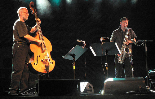 Chris Potter with Dave Holland, live in concert at the Willisau Jazz Festival 2007 (Willisau - Switzerland)